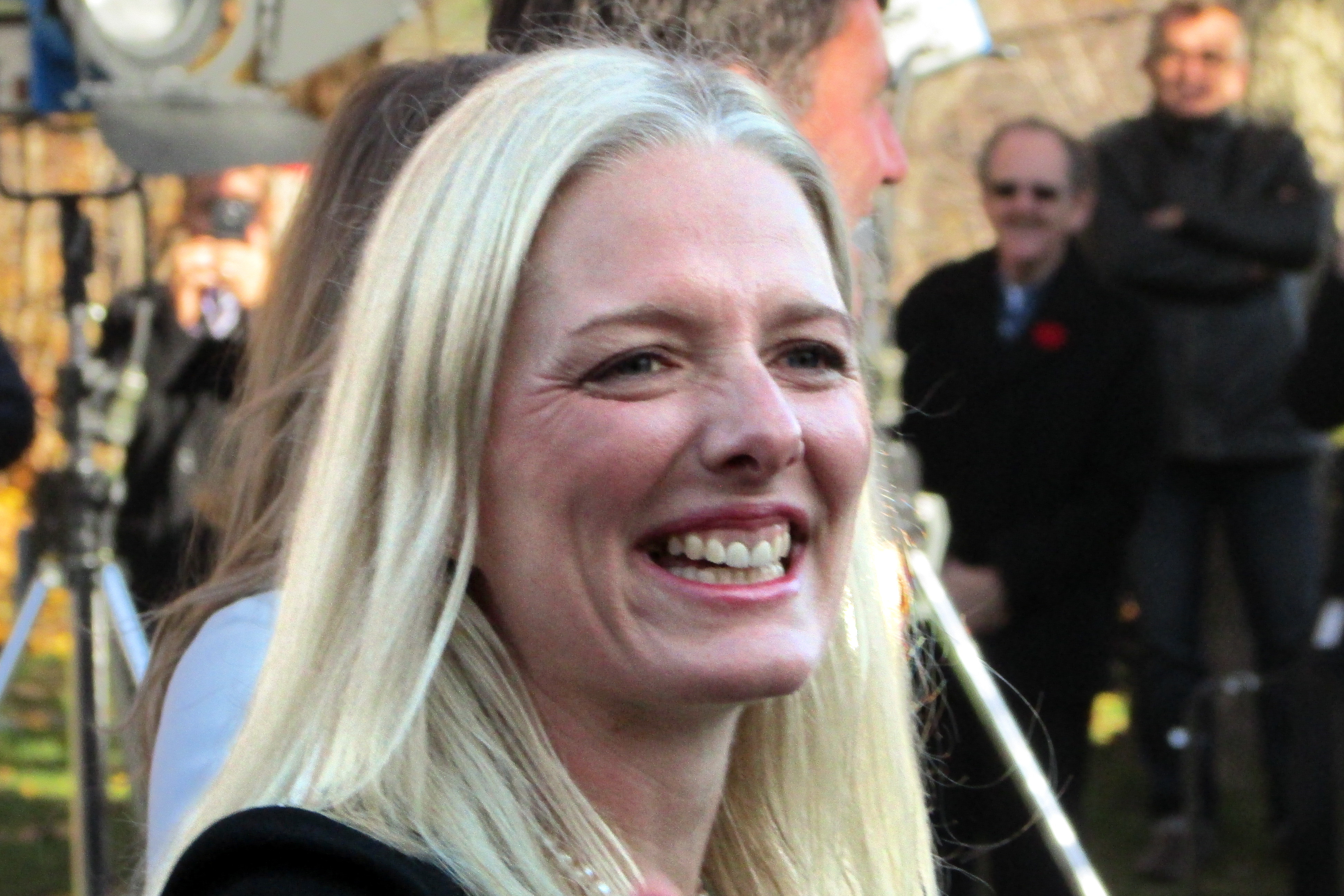 Catherine McKenna